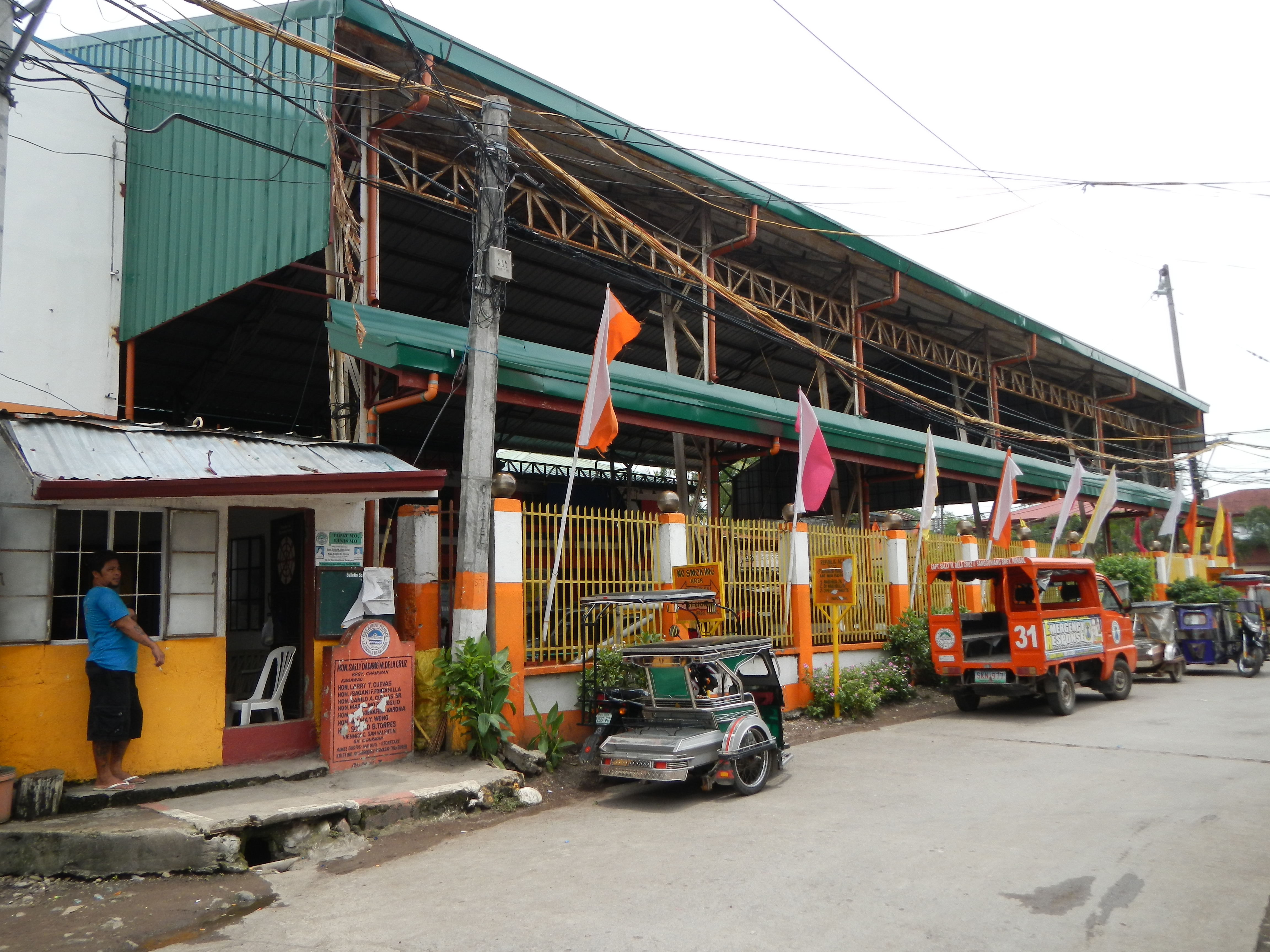 Barangay Hall of Barangay Pansol, [1] Coordinates: 14°10'29"N 121°10'47"E [2] Geographical location: Laguna, Region 4, Philippines, Asia Geographical coordinates: 14° 10' 53" North, 121° 11' 9" East This place is situated in Laguna, Region 4, Philippines, its geographical coordinates are 14° 10' 53" North, 121° 11' 9" East and its original name (with diacritics) is Pansol. -- Calamba City[3]